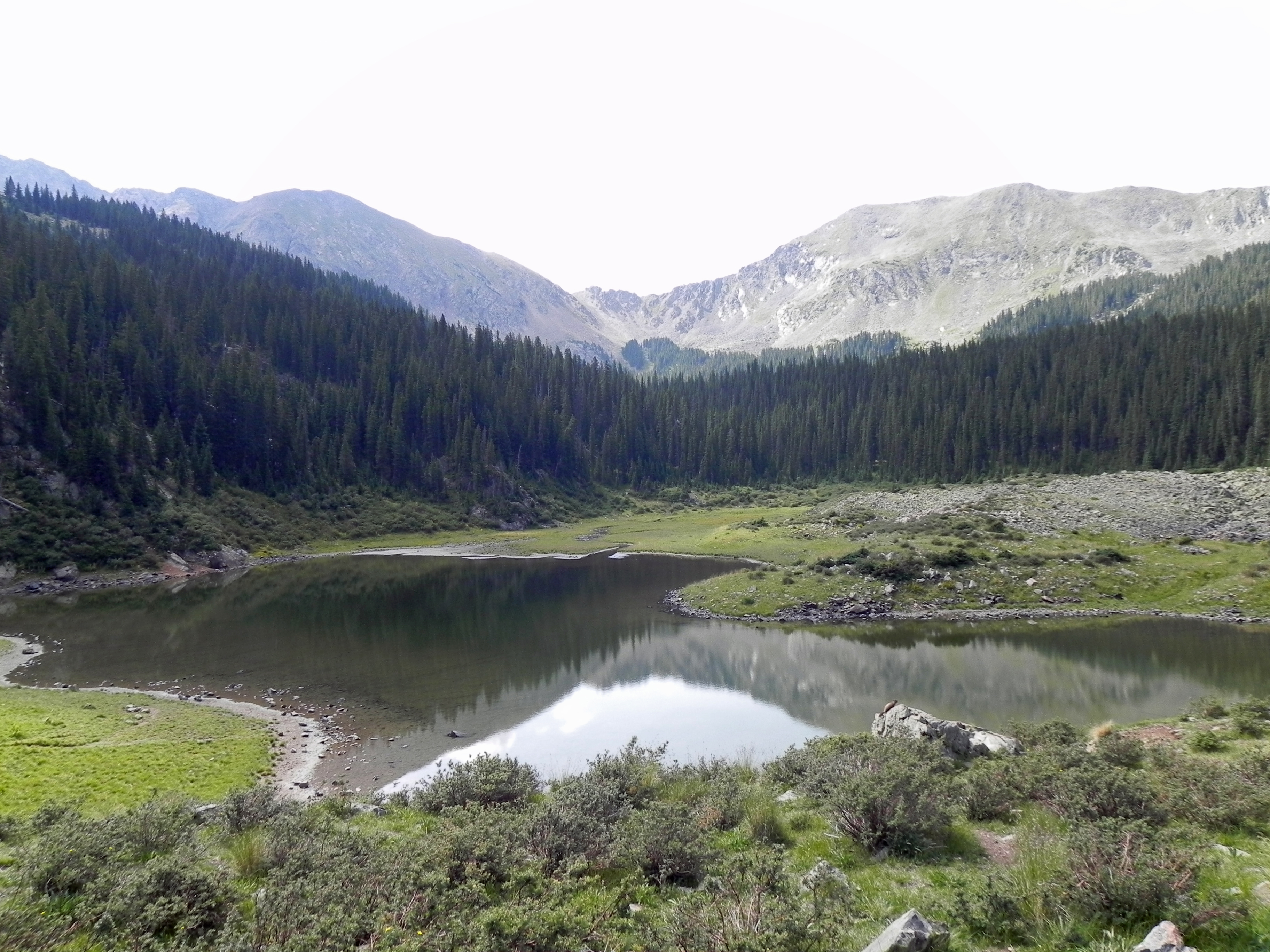 Williams Lake — below Wheeler Peak, in the Sangre de Cristo Mountains, northern New Mexico. Located within the Wheeler Peak Wilderness area of Carson National Forest.